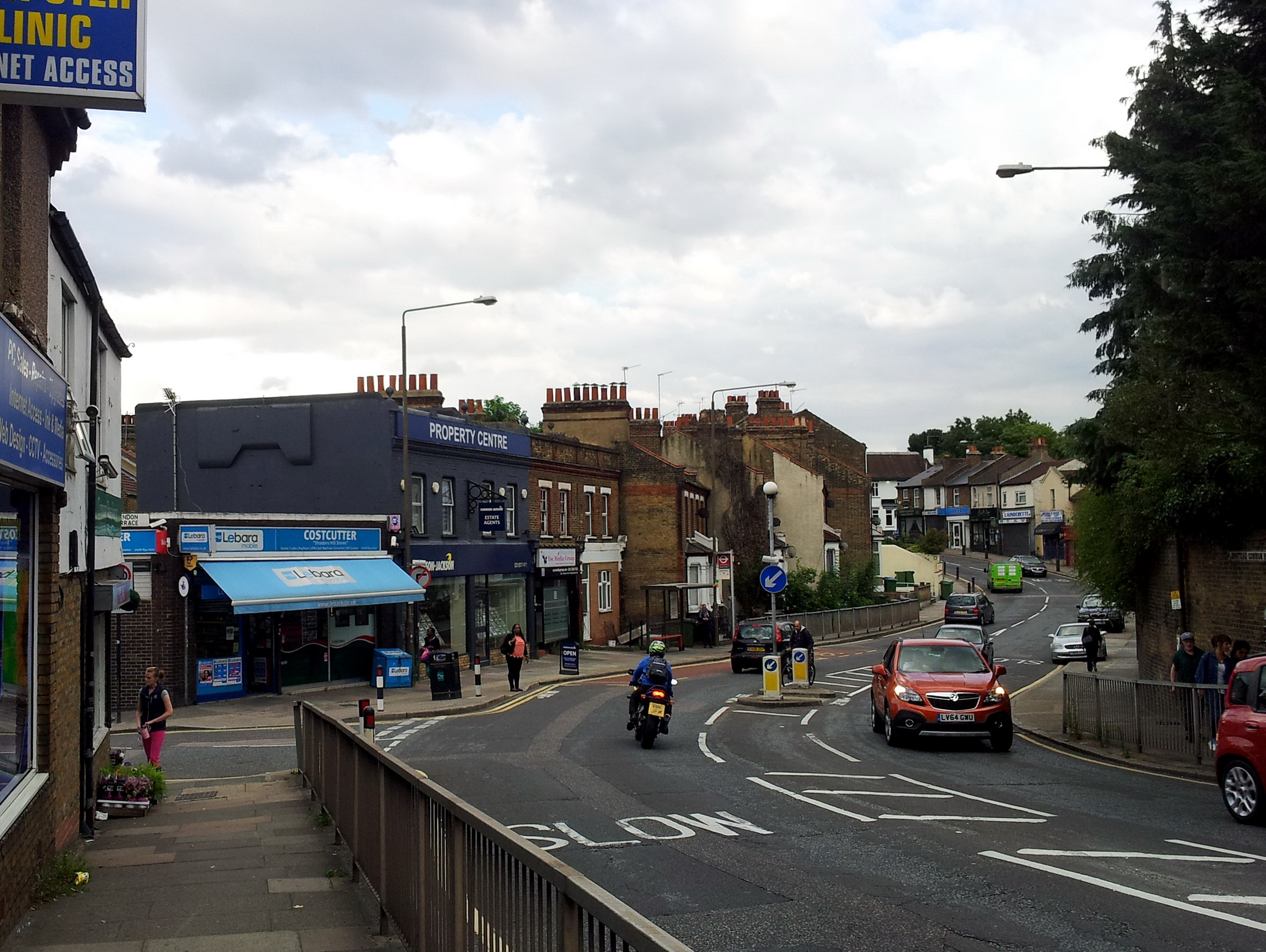 View towards the east of Plumstead Common Road in Plumstead, Royal Borough of Greenwich, South East London.